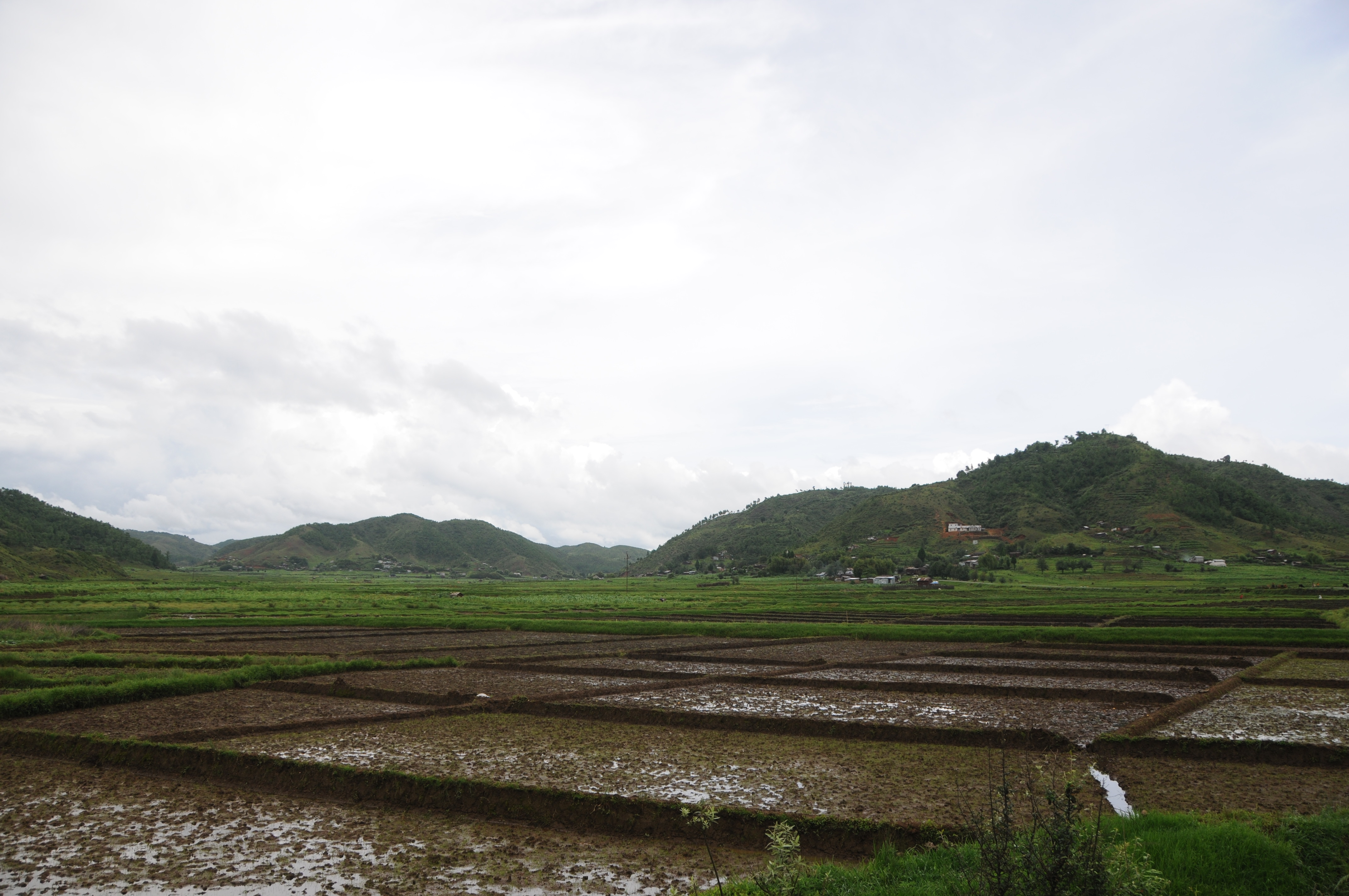 Regular farms of Meghalaya India Meghalaya and its neighboring states also see some jhum or shift cultivation.